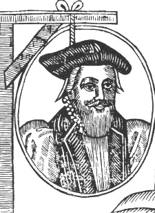 John Atherton (1598-1640) (left) and John Childe (16xx-1640) (right), from the title page of the anonymous booklet The shameful ende of Bishop Atherton and his Proctor Iohn Childe, published in 1641). John Atherton, Bishop of Waterford and Lismore, was hanged for sodomy under a law that he had helped to institute. His lover was John Childe, his steward and tithe proctor, also hanged.